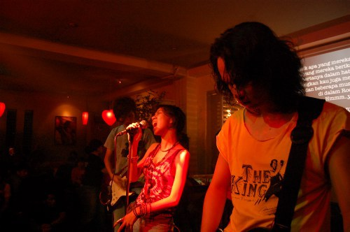 A picture of Crossing The Railroad Launching Party